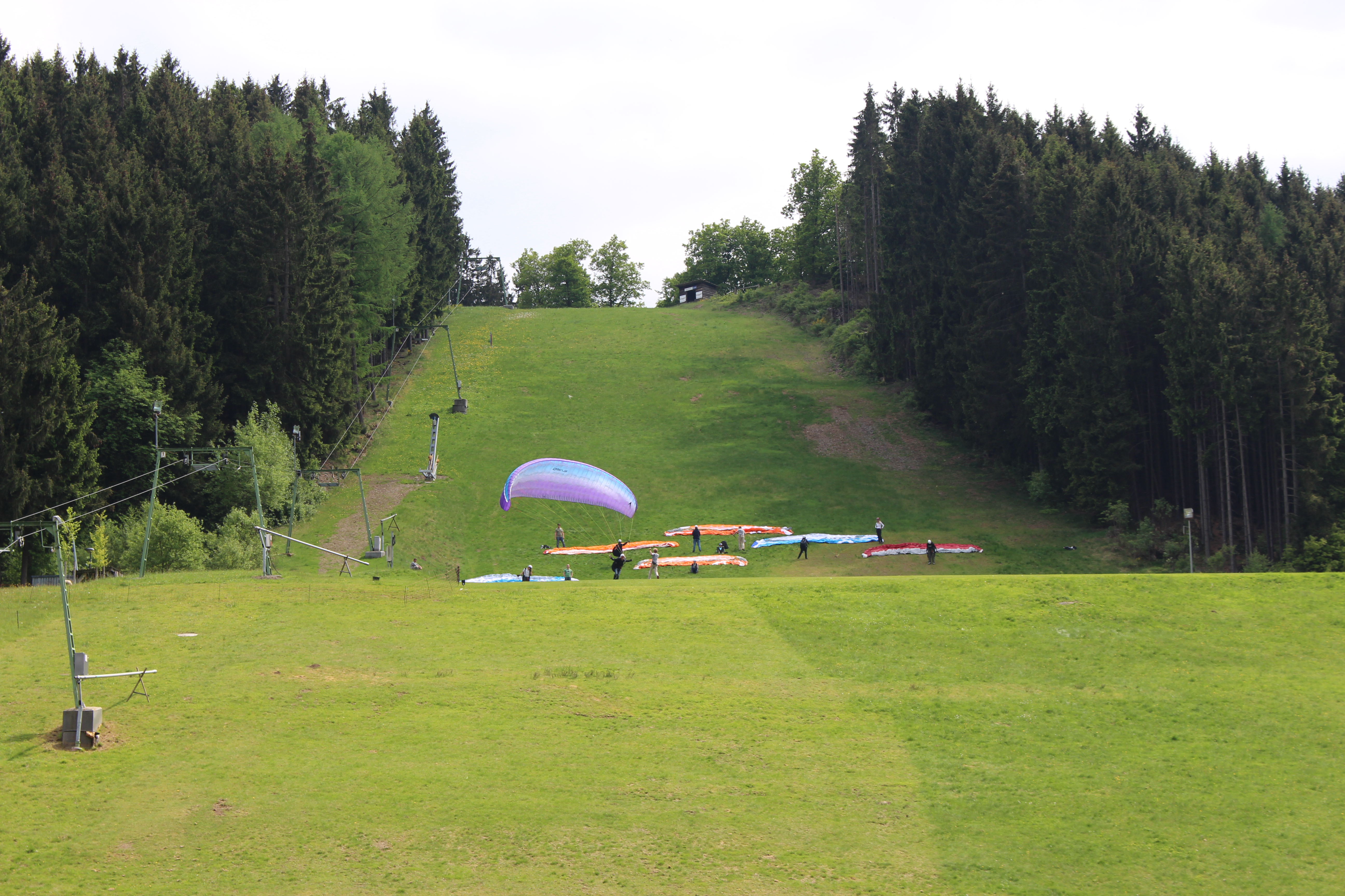 Paraglider at skiing resort Hesselbach (Skigebiet Hesselbach), Germany.